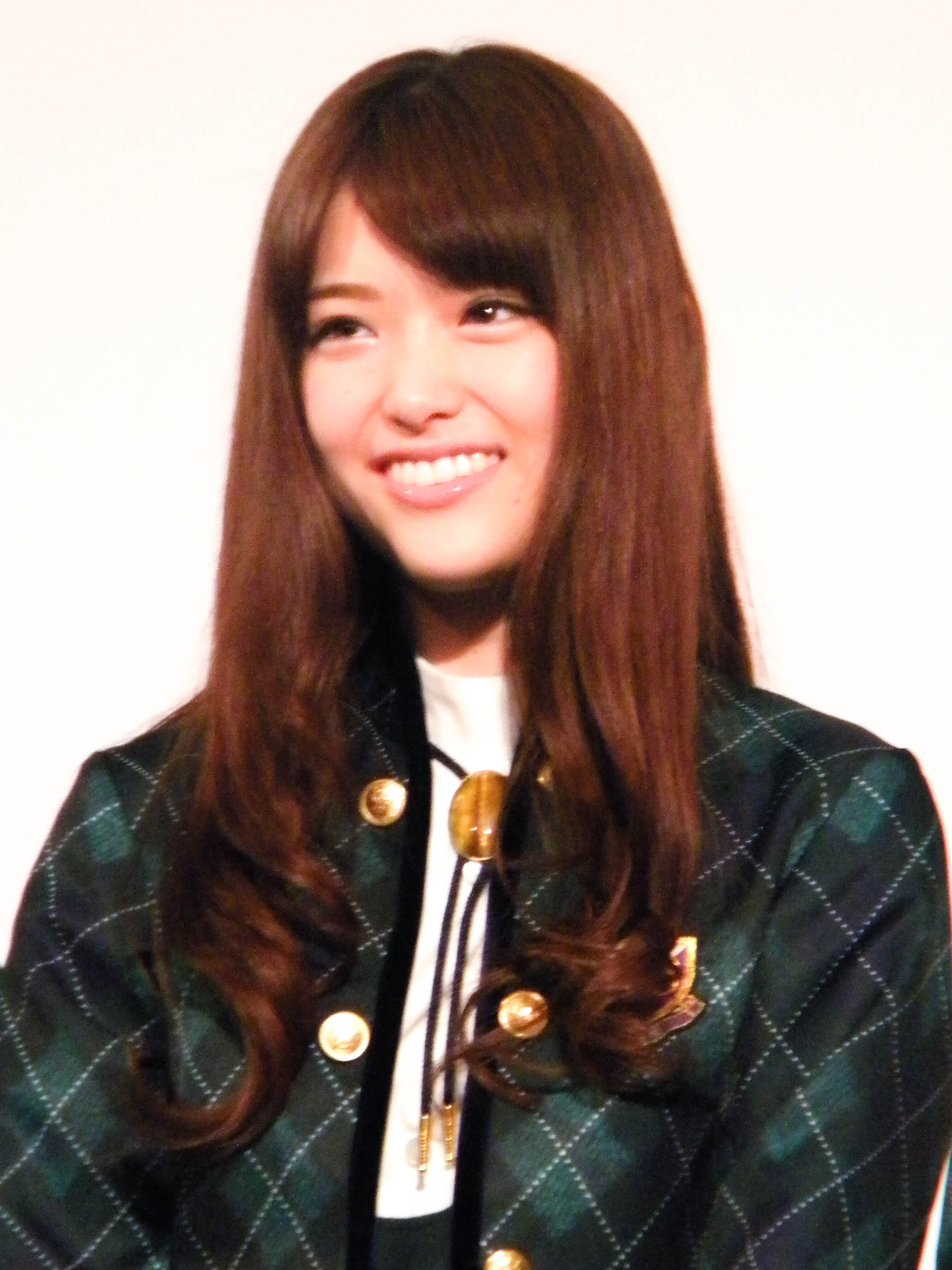 Sayuri Matsumura (Nogizaka46) on HTC and Chunghwa Telecom HTC Butterfly 2 joint marketing event in Taipei, Taiwan.